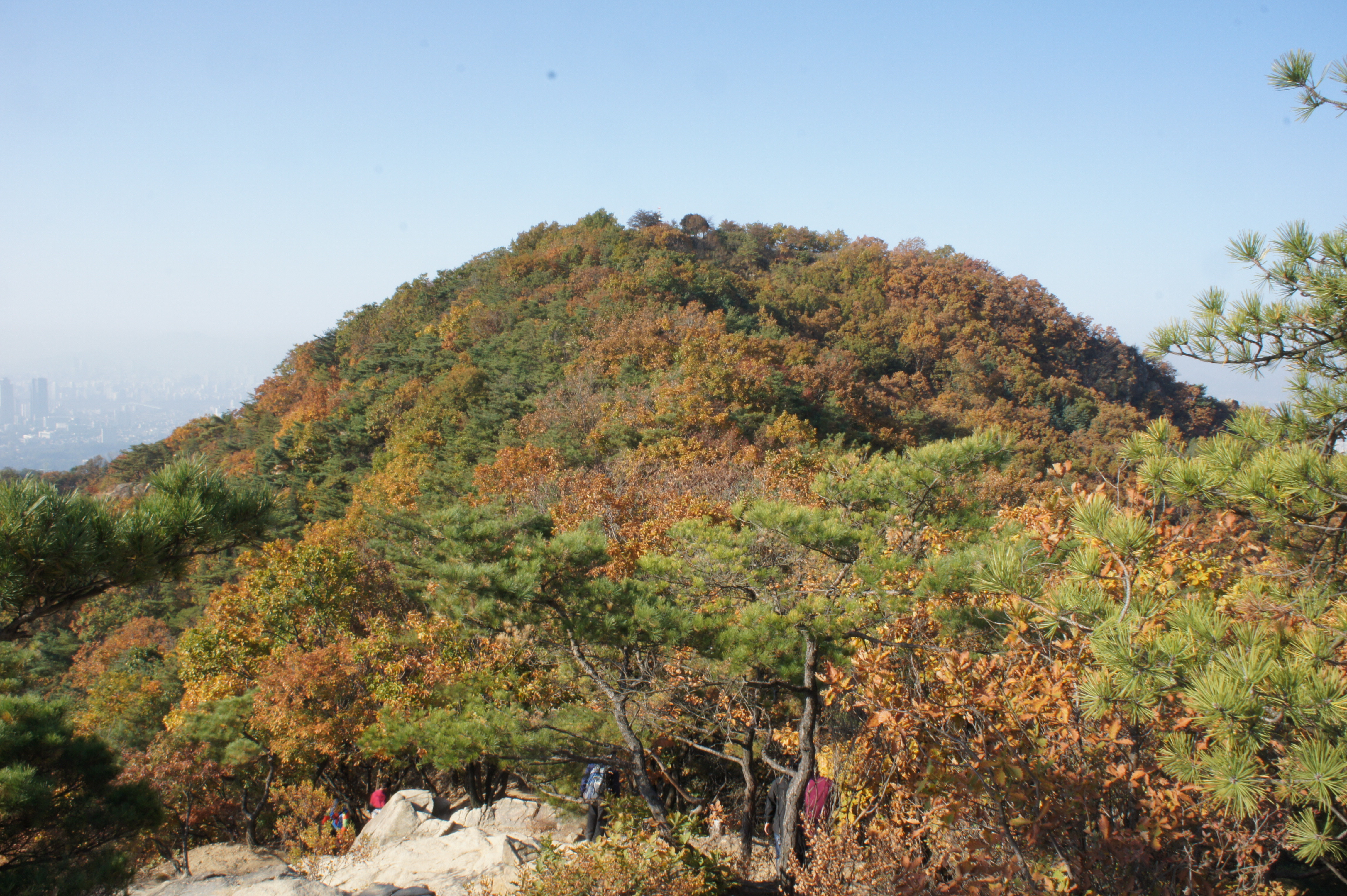 Yongmasan (용마산) peak as seen from the trail.